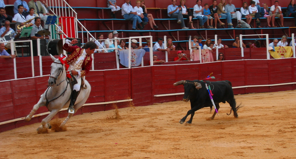 Bullfight